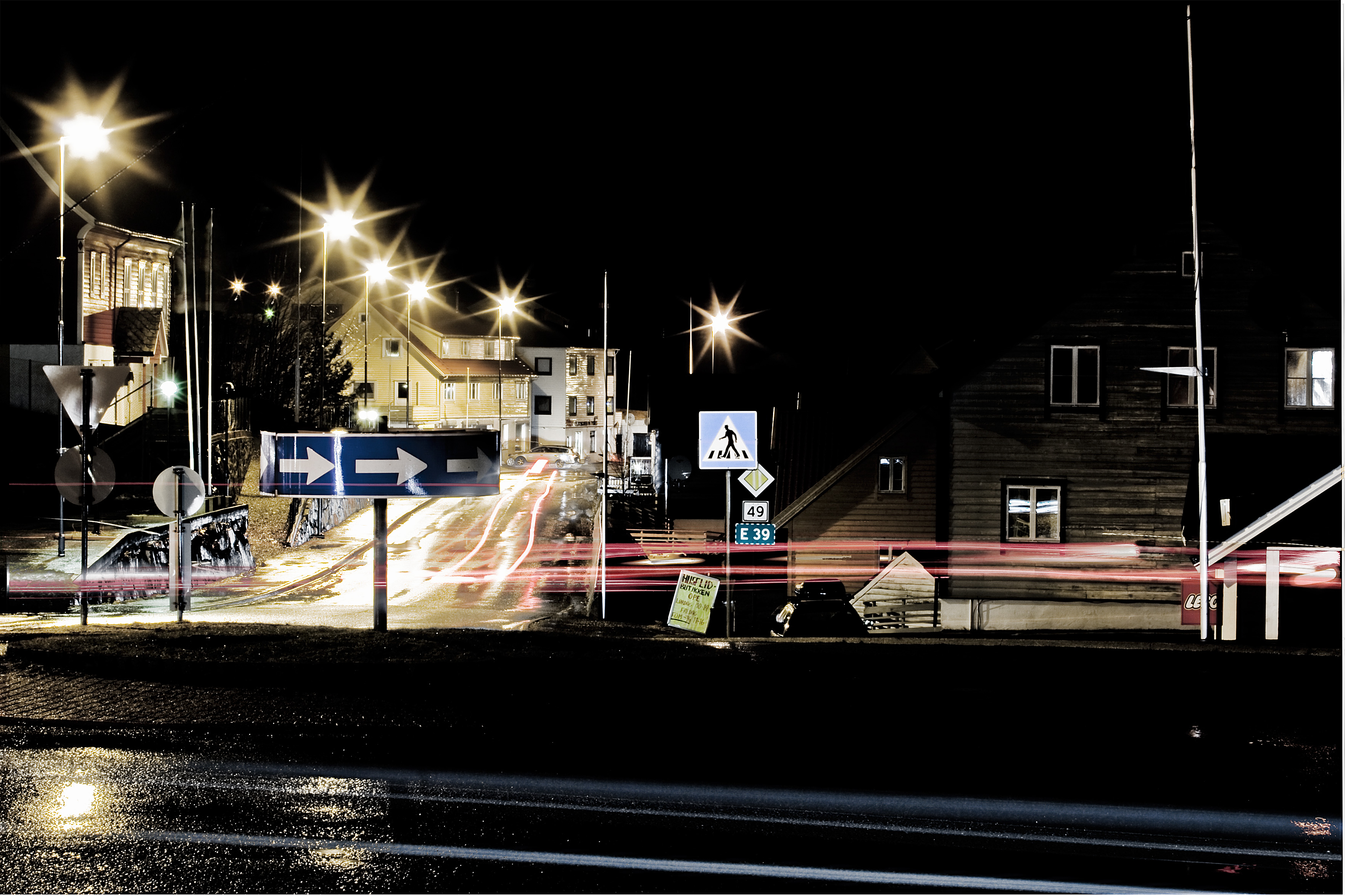 A photo of Våge at night, with long exposure time. Våge is located within the municipality of Tysnes in Hordaland, Norway.